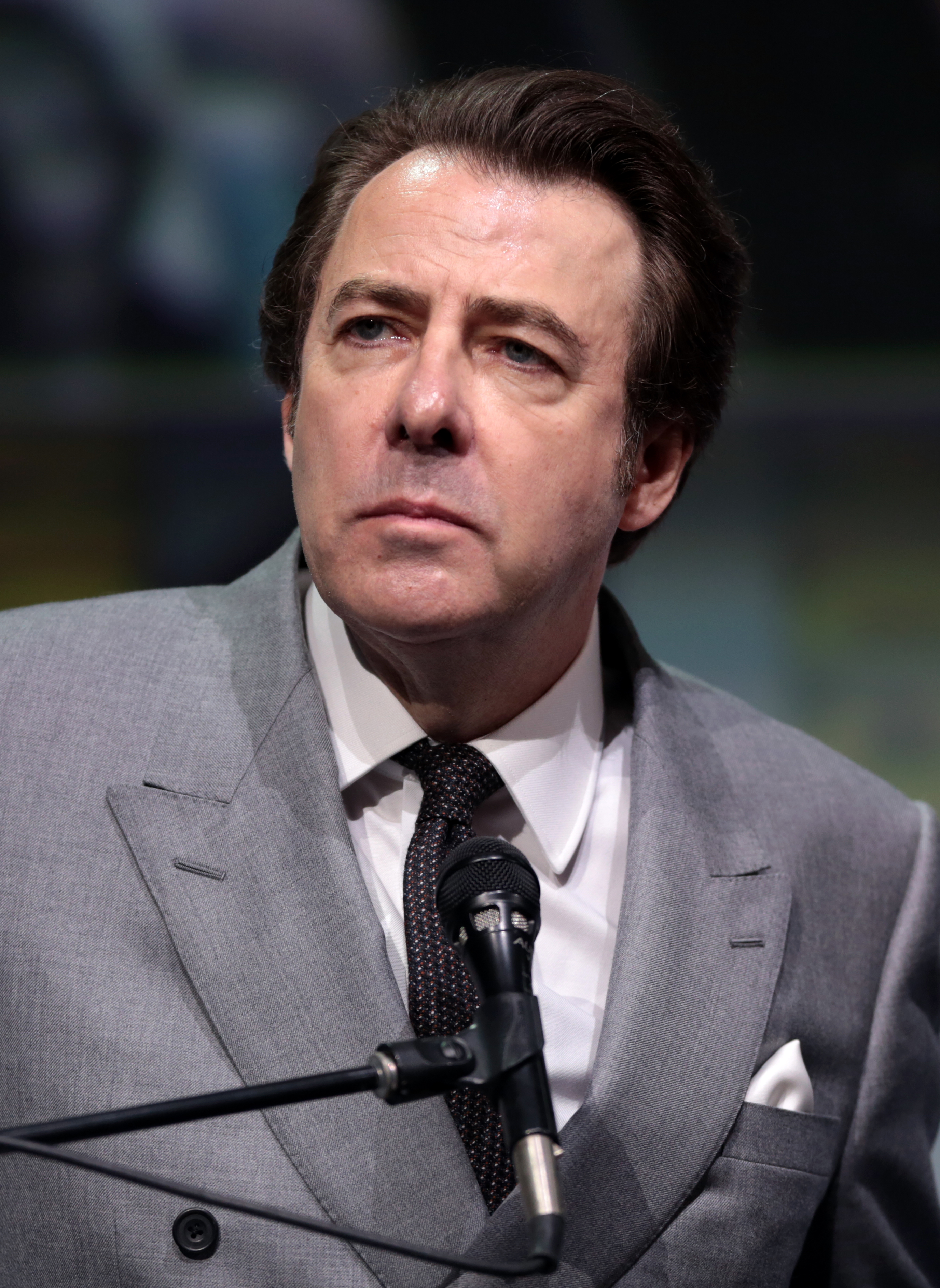 Jonathan Ross speaking at the 2017 San Diego Comic-Con International in San Diego, California.